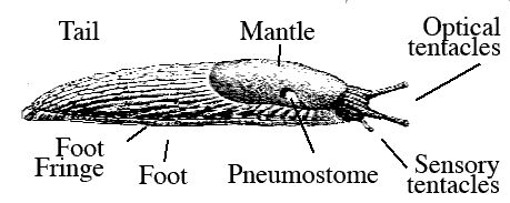 Parts of a slug